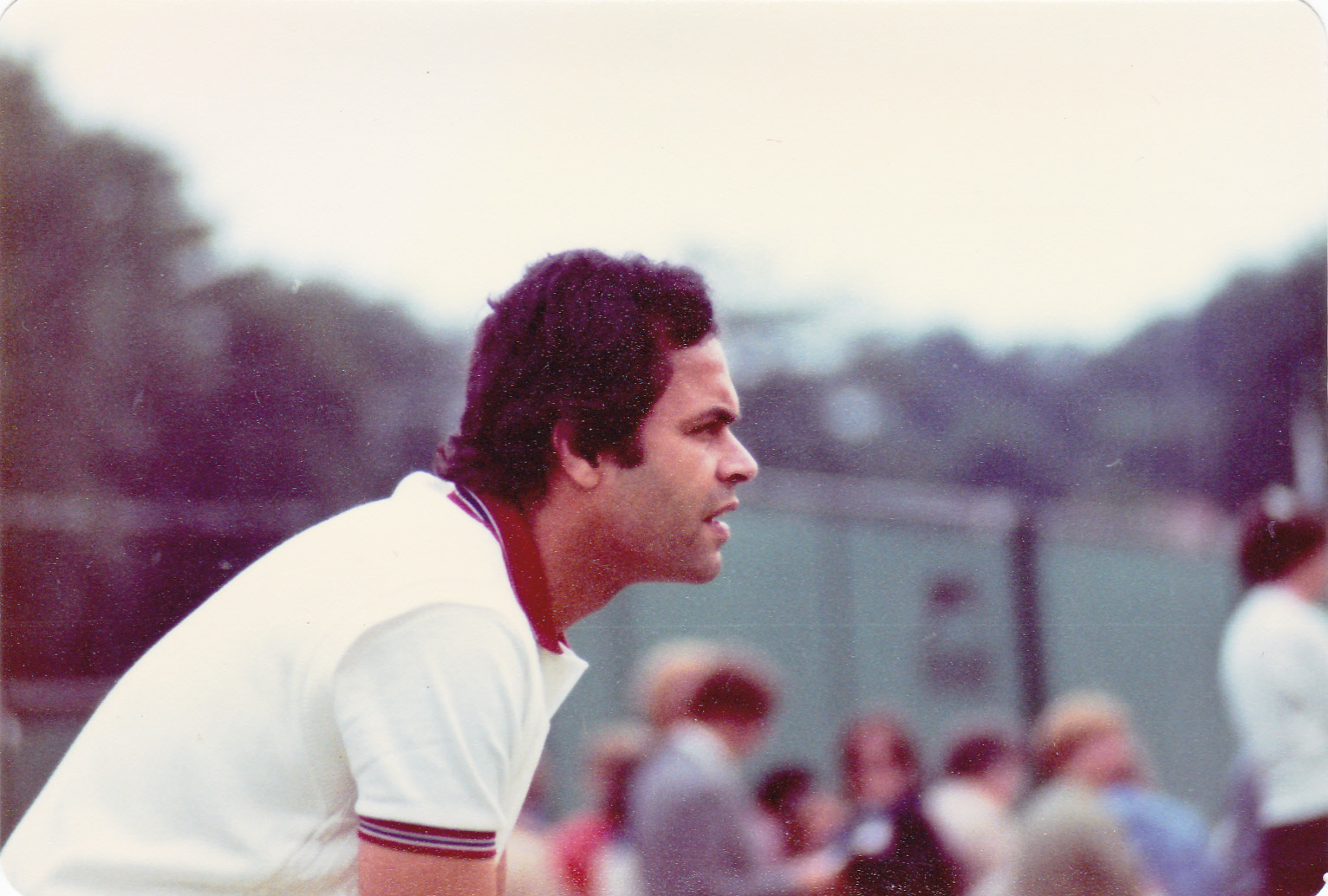 Ismail El Shafei Wimbledon circa 1982